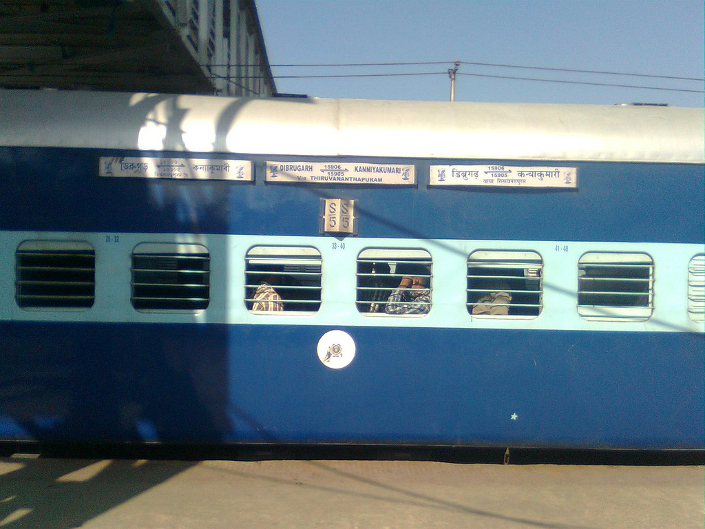 The longest running train on Indian Railways! 15906 Dibrugarh - Kanniyakumari VIVEK Express at Guwahati on 25.12.2011.